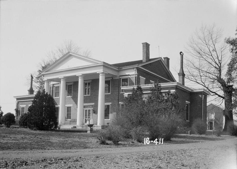 Robinson-Dillworth House, 2709 Meridian Pike, Huntsville vicinity, Madison County, AL. FRONT VIEW.